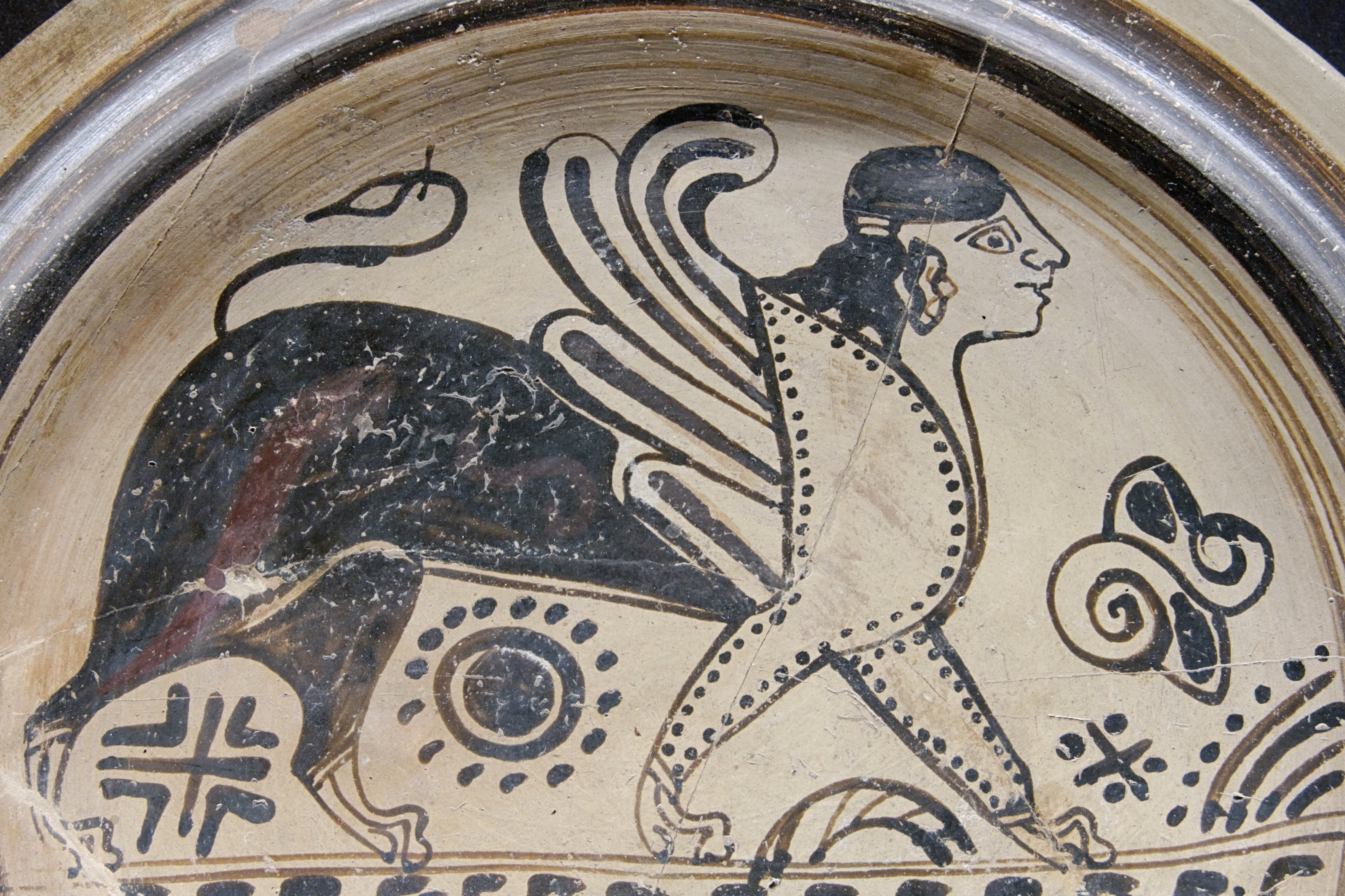 Sphinx. Detail of the tondo of an Ionian or Rhodian orientalizing plate, ca. 600–575 BC. From Kameiros, Rhodes.